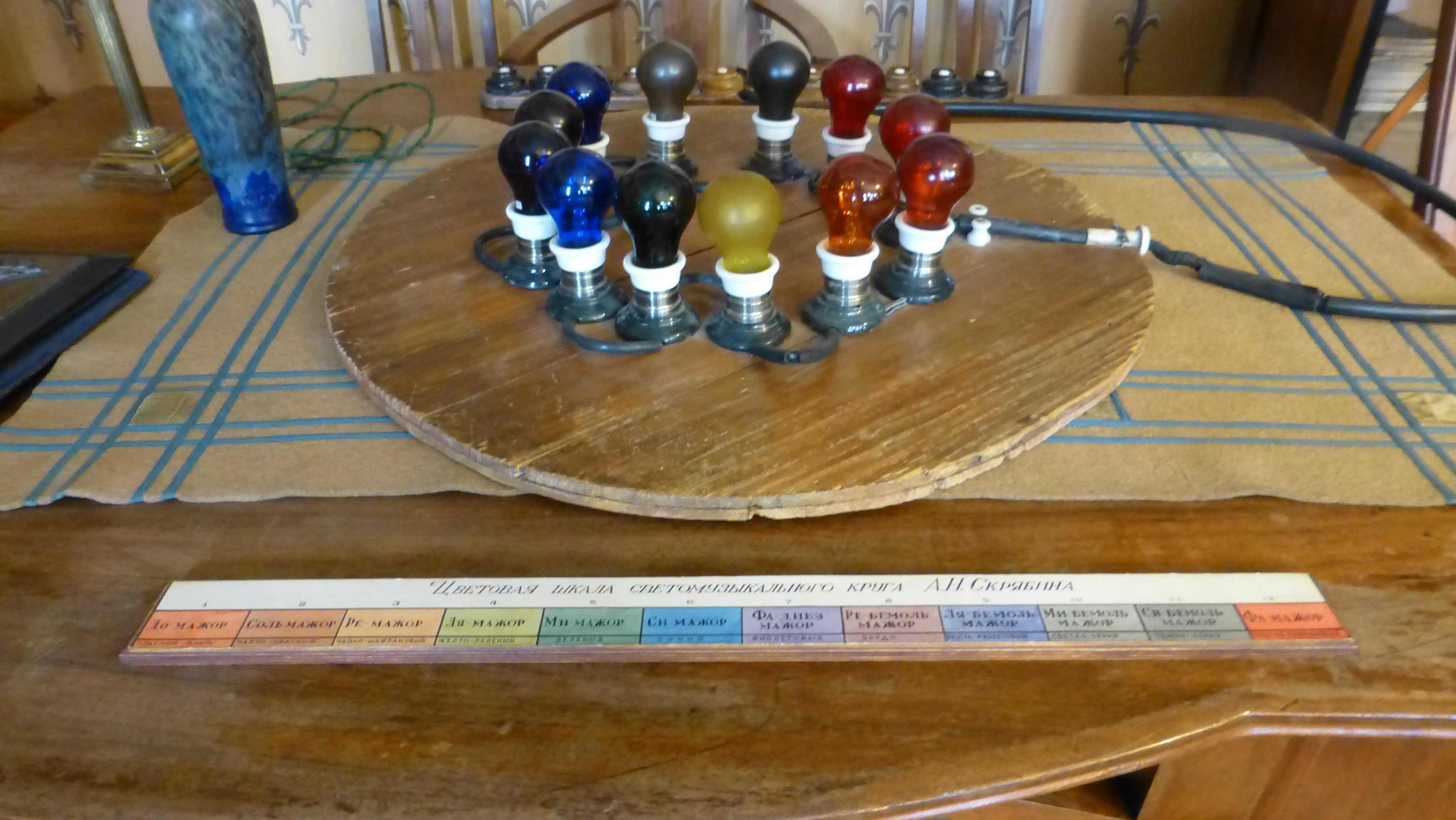 Scriabin's experimental equipment of lights and tones in his house.(Moscow)